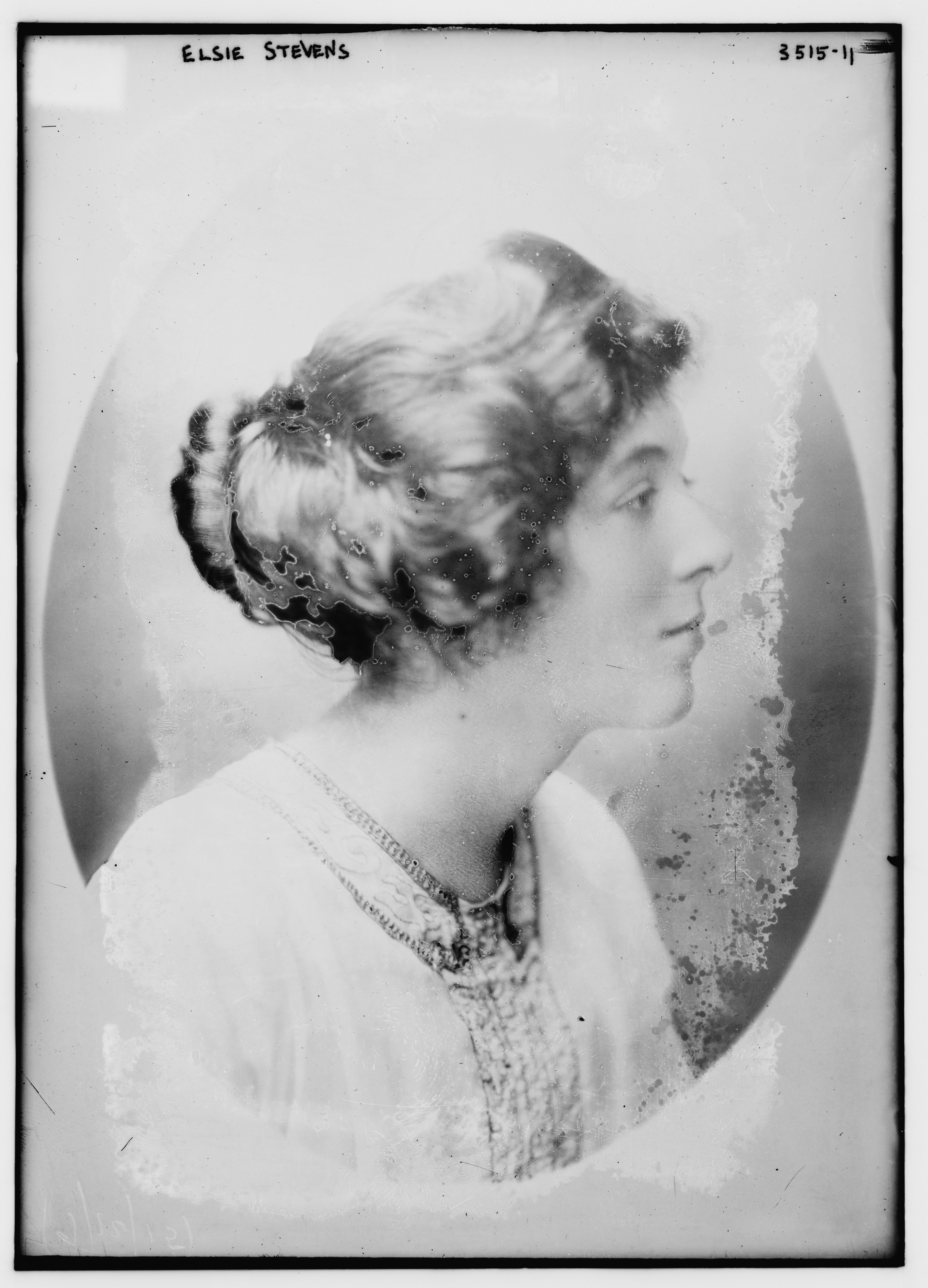 Title: Elsie Stevens Abstract/medium: 1 negative : glass ; 5 x 7 in. or smaller.